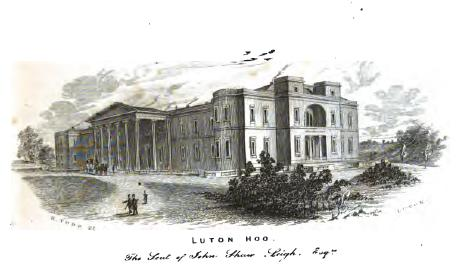 Image of Luton Hoo, bedfordshire